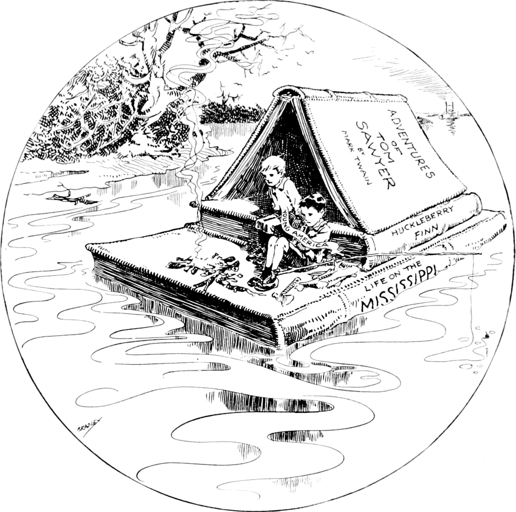 Title: Cartoons by Bradley, cartoonist of the Chicago Daily News; Year: 1917 (1910s) Authors: Bradley, Luther Daniels, 1853-1917 Smith, Henry J Subjects: Caricatures and cartoons Publisher: Chicago, Rand McNally Text Appearing Before Image: (Just before- the Republican National Convention)(May 16, igo8) 49 THE MAGIC RIVER Text Appearing After Image: I Inspired by the death ol Mark Twain ) (April 22. 1910) 50 ROMANCETHAT MIGHT HAVE BEEN WRECKED